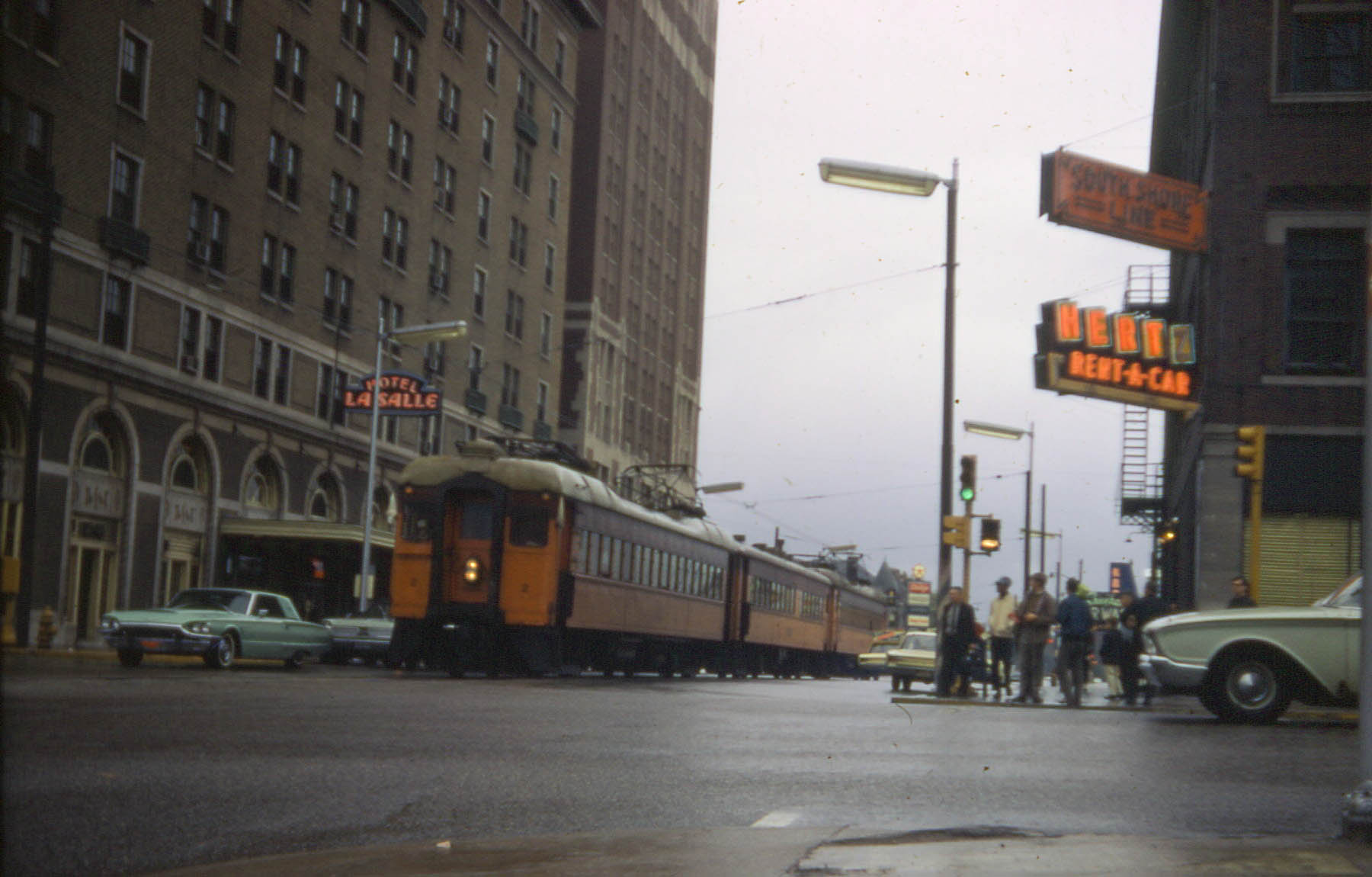 19671008 34 South Shore Line, South Bend, IN